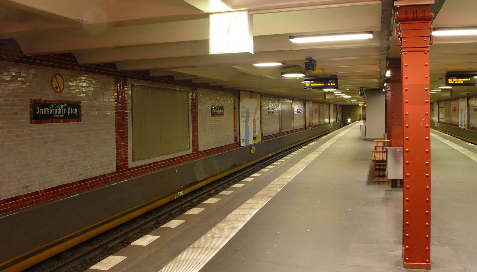 Subway Station Innbruckerplatz